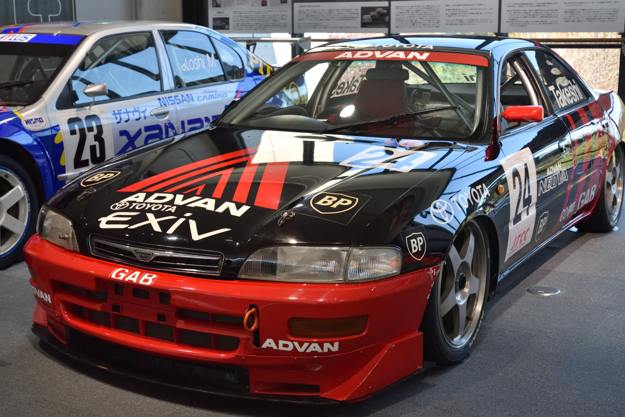 TOYOTA ADVAN EXIV (Takeshi Tsuchiya, JTCC 1998)